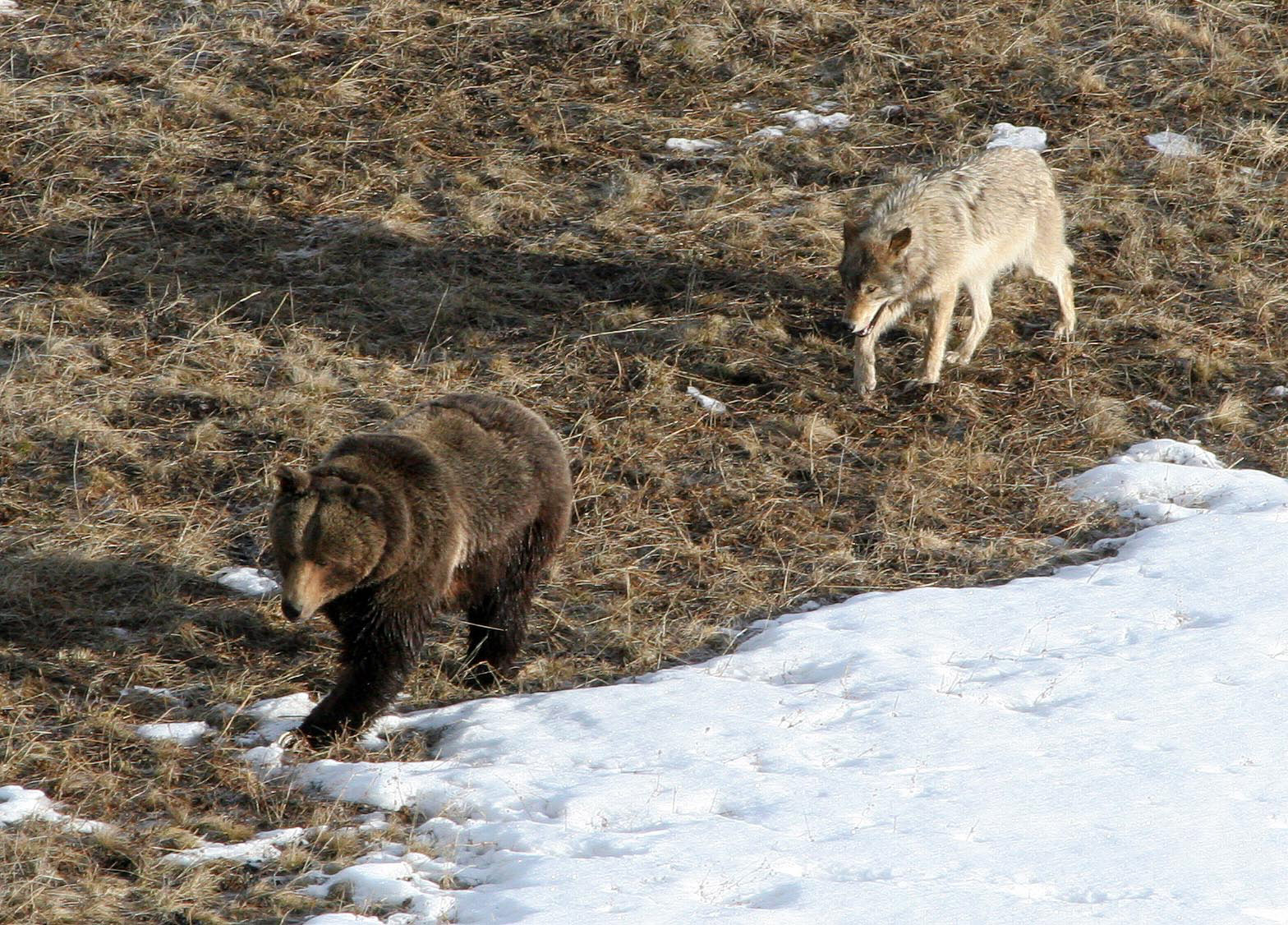 A wolf following a grizzly bear